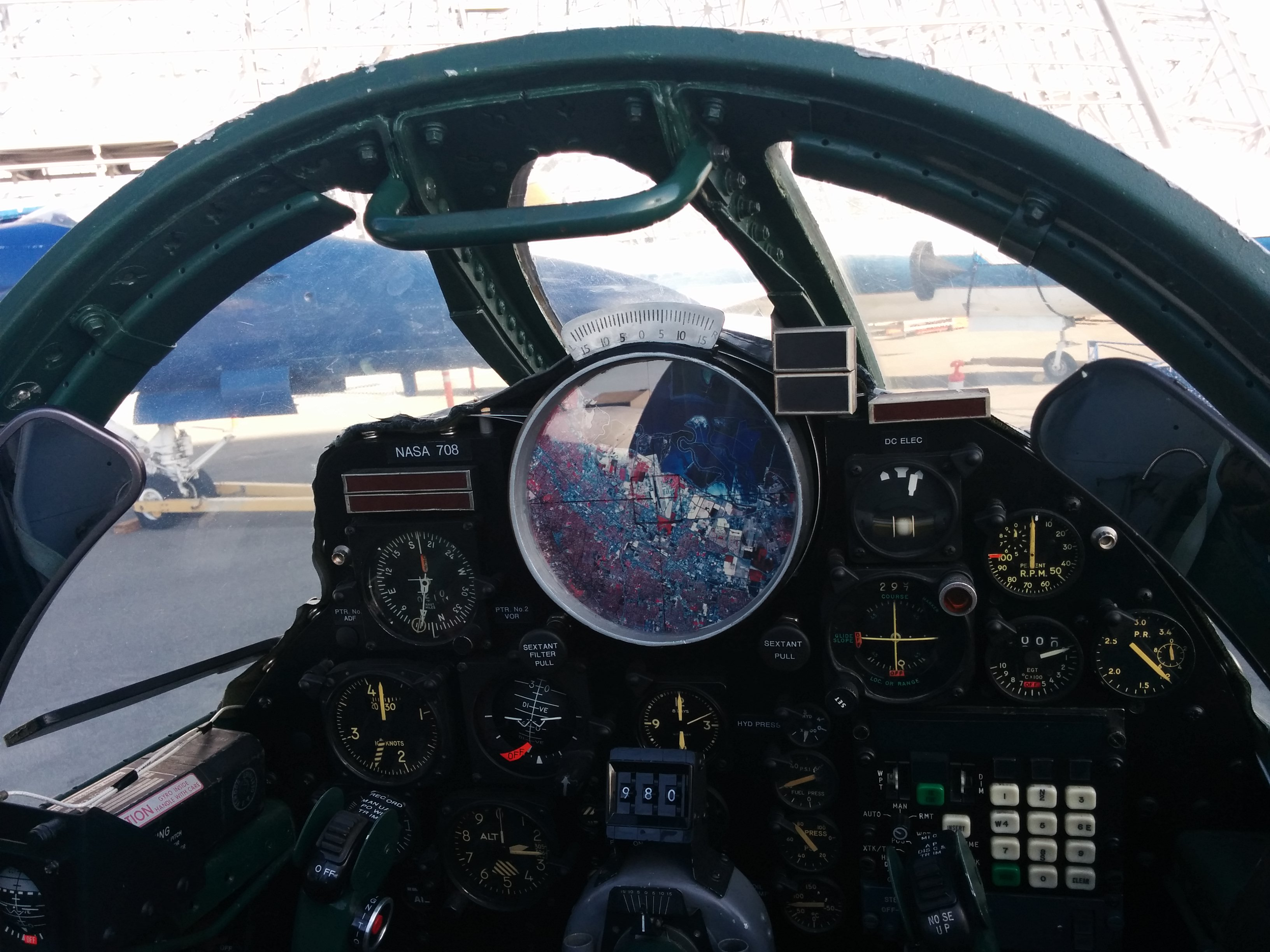 U-2 spy plane pilot's view in the cockpit. The circular telescope monitor is vital for navigation, evading MiG's and SAM's as early as possible. This particular U-2 is restored and on display at NASA/Moffett Field museum, Mountain View, Calif.